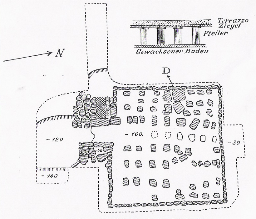 Germany - Baden-Württemberg - Bodenseekreis - Kressbronn am Bodensee: roman bath ruin, drawing of the excavation site